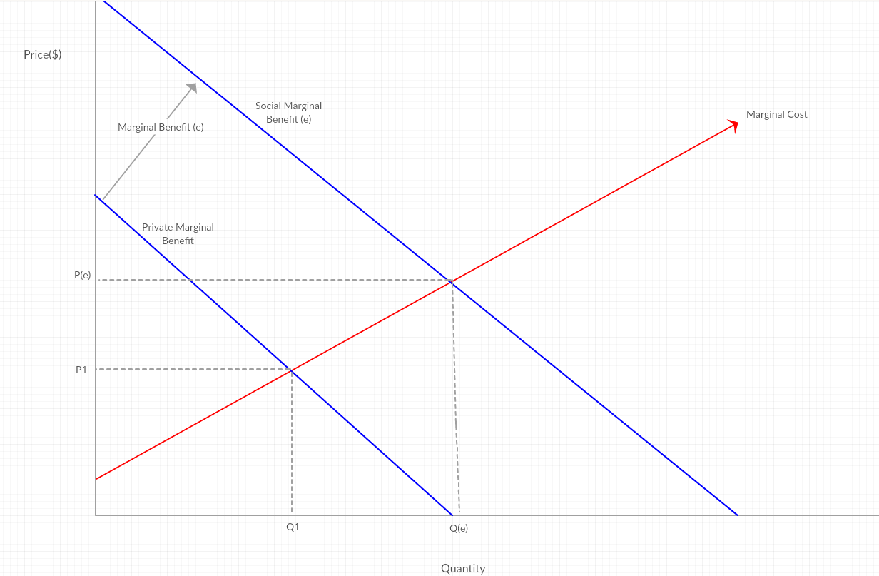 Immunization shift to eradication quantity